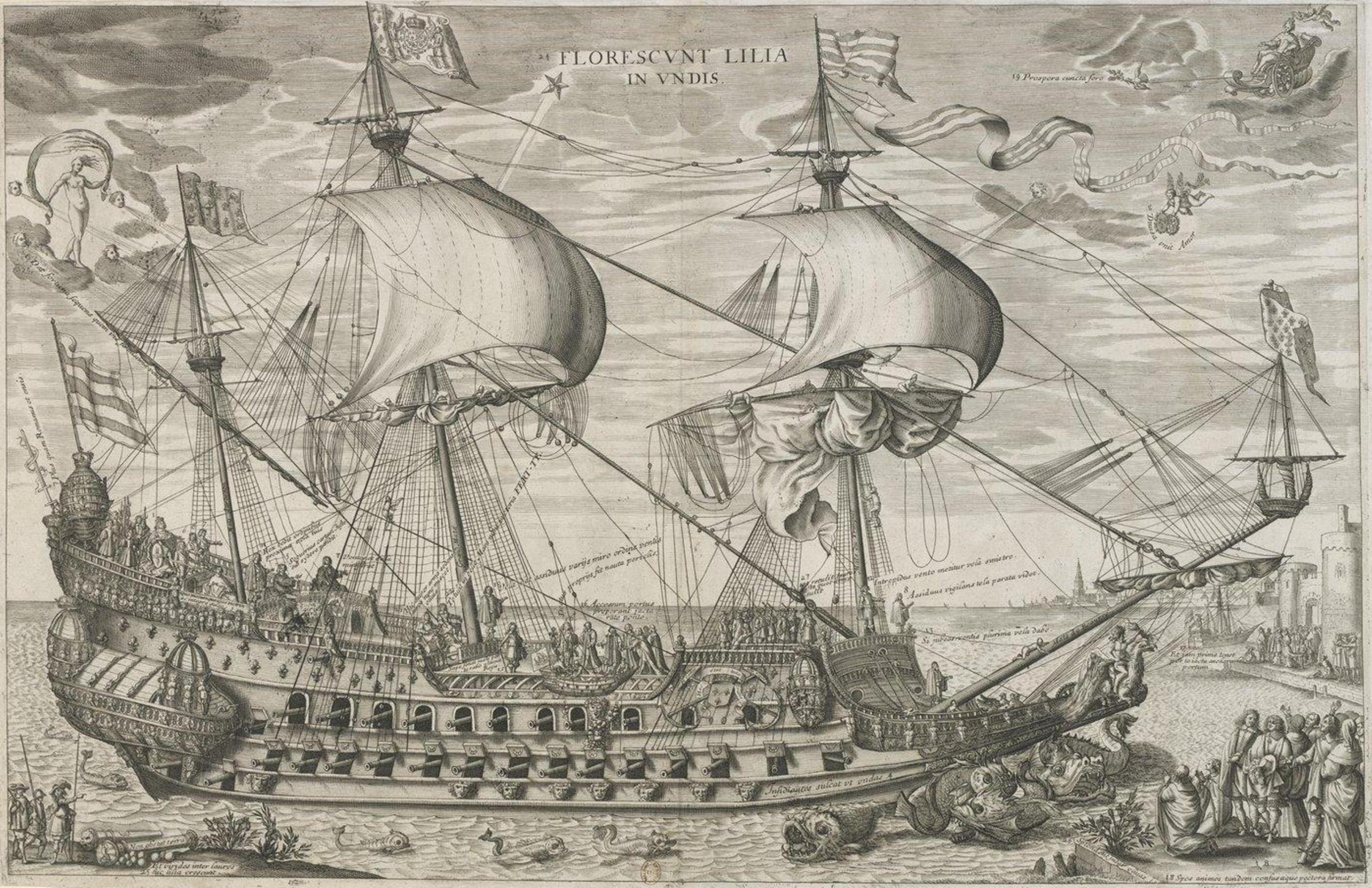 Lilies bloom in waves. Allegorical engraving representing the kingdom of France in the form of a ship with Louis XIII and Richelieu in control. To 1630-1640.